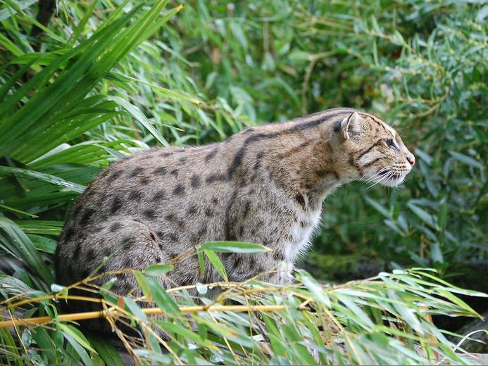 A fishing cat (Prionailurus viverrinus) in Pessac Zoo.